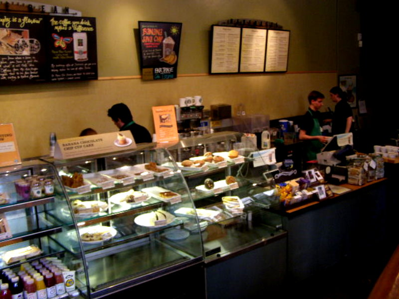 Starbucks, Cathedral Square, Peterborough, UK. A typical sales area in a Starbucks coffeehouse. Showing the till, preparation areas and sales displays.